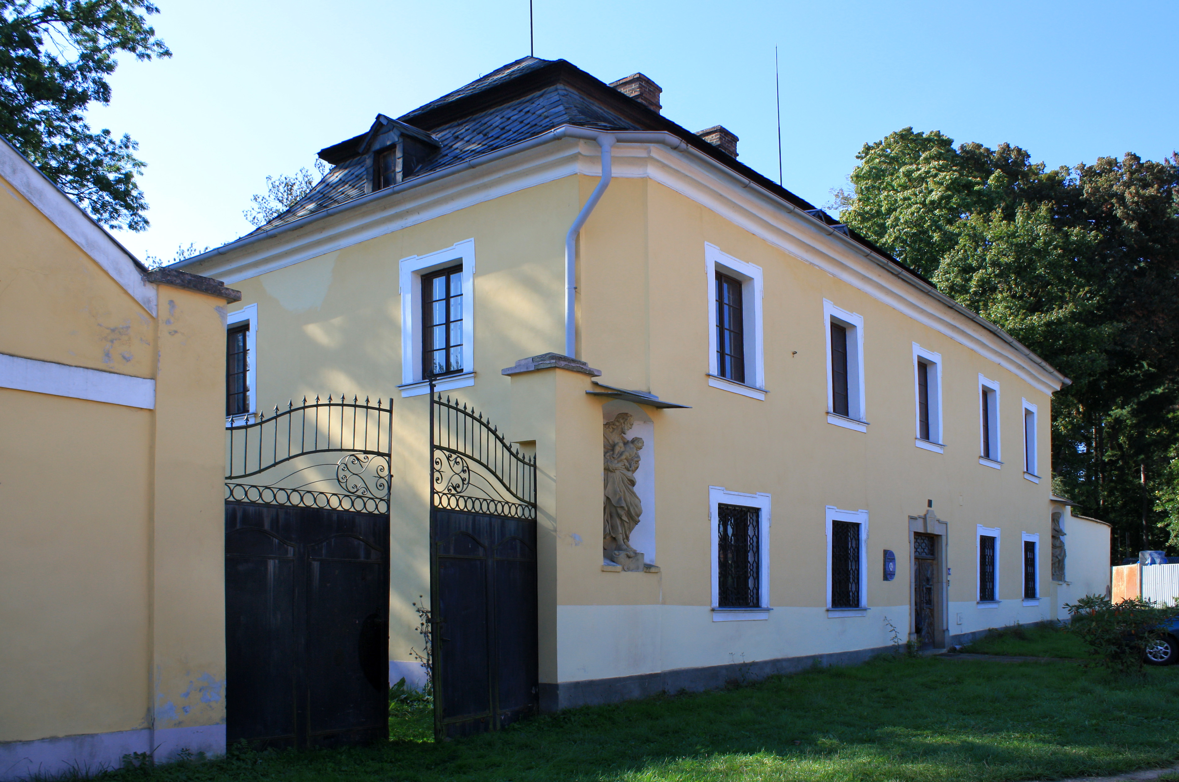 Protected house No 134 in Riegrova street in Hrochův Týnec, Czech Republic